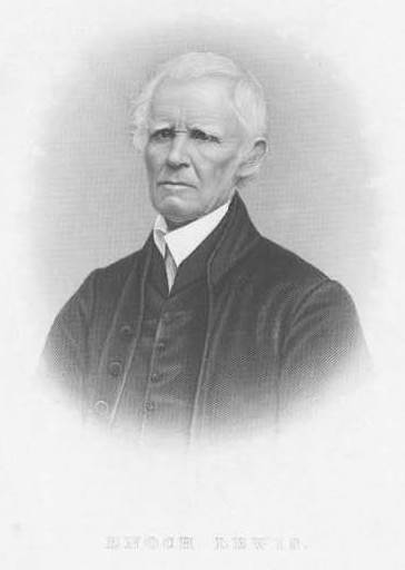 Depicted person: Enoch Lewis